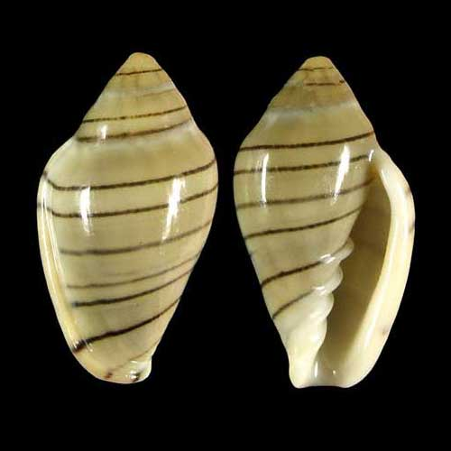 Species: Marginella musica Hinds, 1844 Distribution: West Cape Peninsula to Cape St. Francis and Agulhas Bank data: in crayfish trap in 200m Cape Agulhas, South Africa